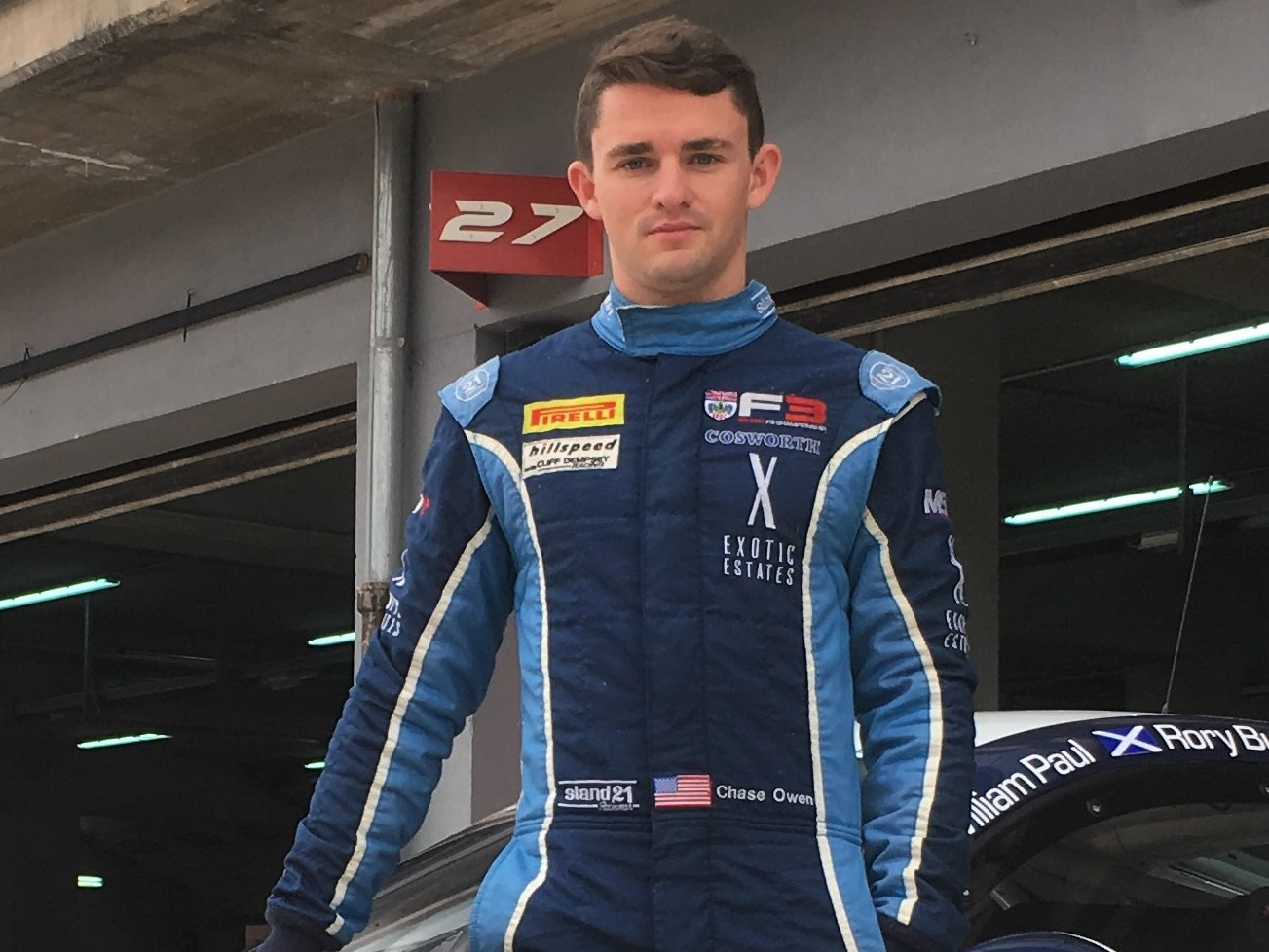 Chase Owen before a GT-4 race at the Autodromo Enzo e Dino Ferrari (circuit) in 2017.